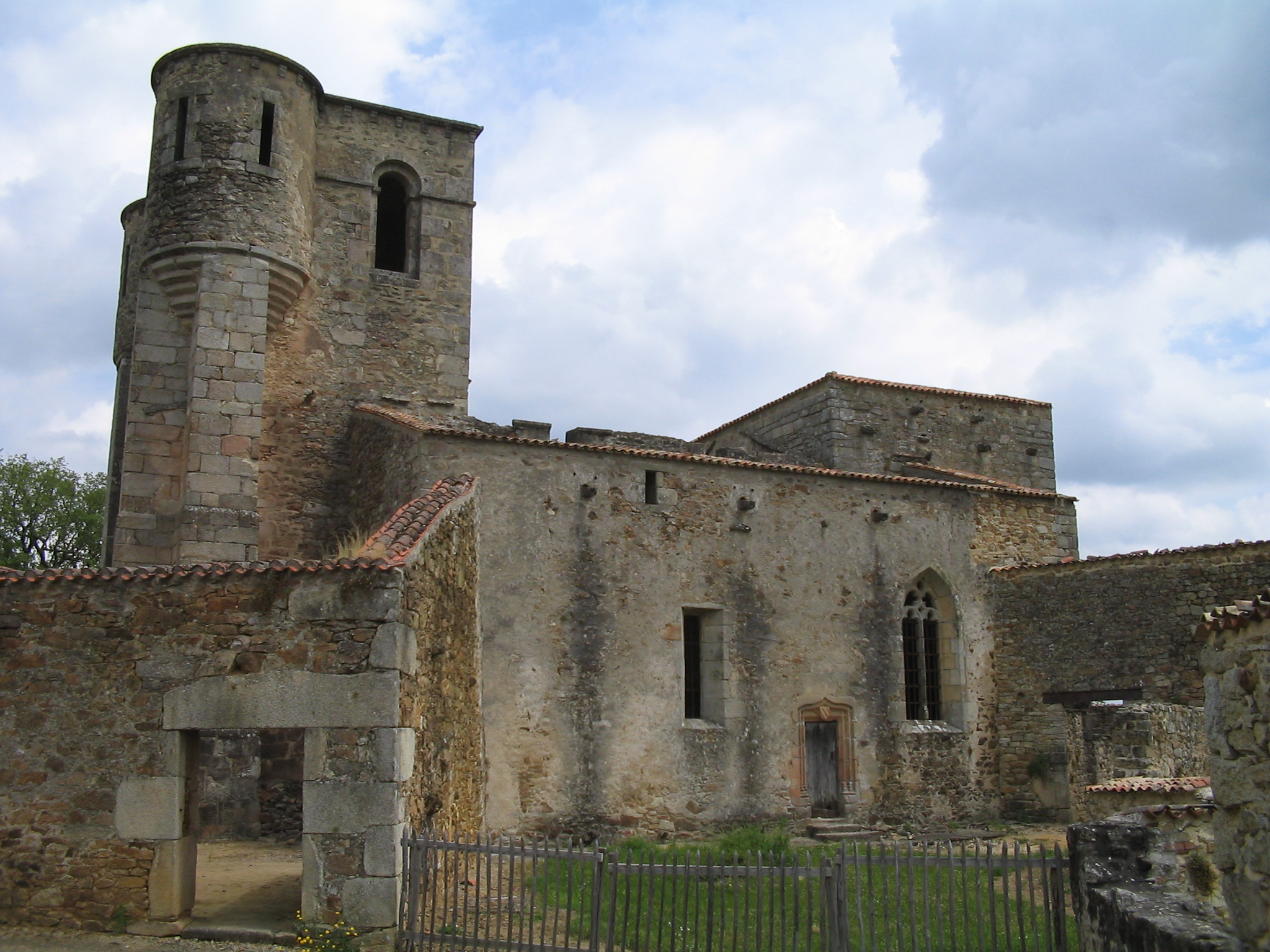 The church in Oradour-sur-Glane. This is the church in which the women and children were burnt to death. This is a photograph which I took during a visit to the French village Oradour-sur-Glane on June 11 2004, exactly 60 years after its destruction by the German army during World War II.